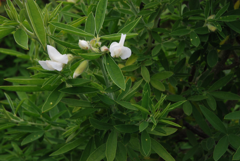 Flowers of Chamaecytisus prolifer, Mirador de la Somada Alta, La Palma, Spain